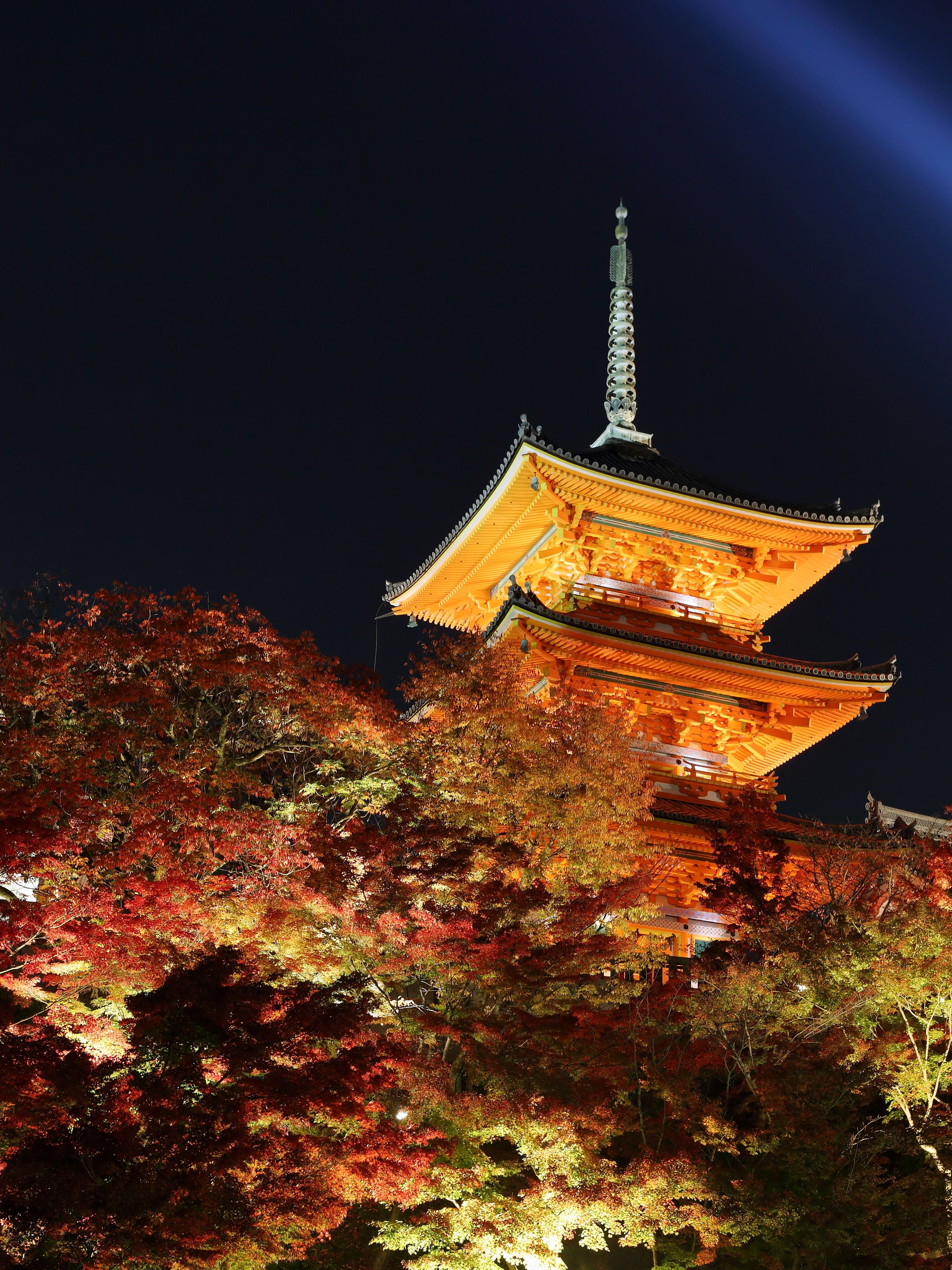 Kiyomizu-dera, Kyoto, Japan, part of UNESCO World Heritage Site Ref. Number 688.